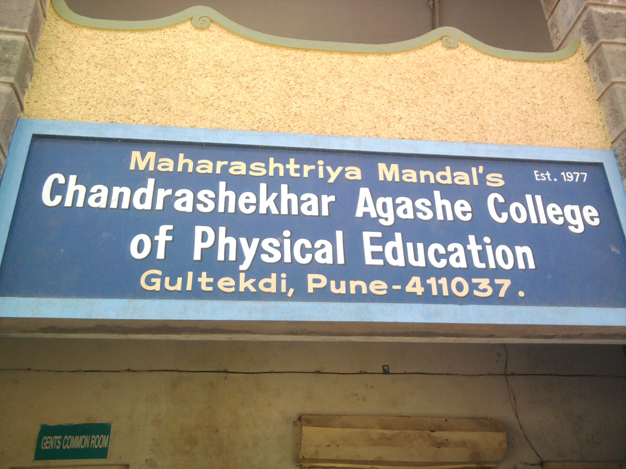 Board of Chadrashekar agashe college, Pune, India